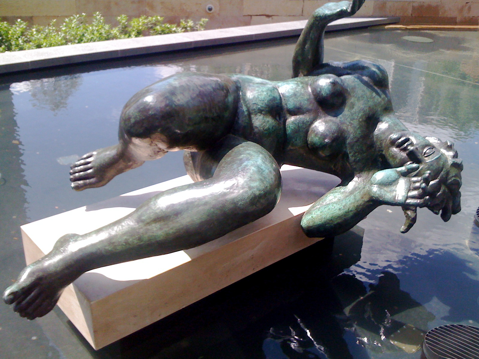 The River